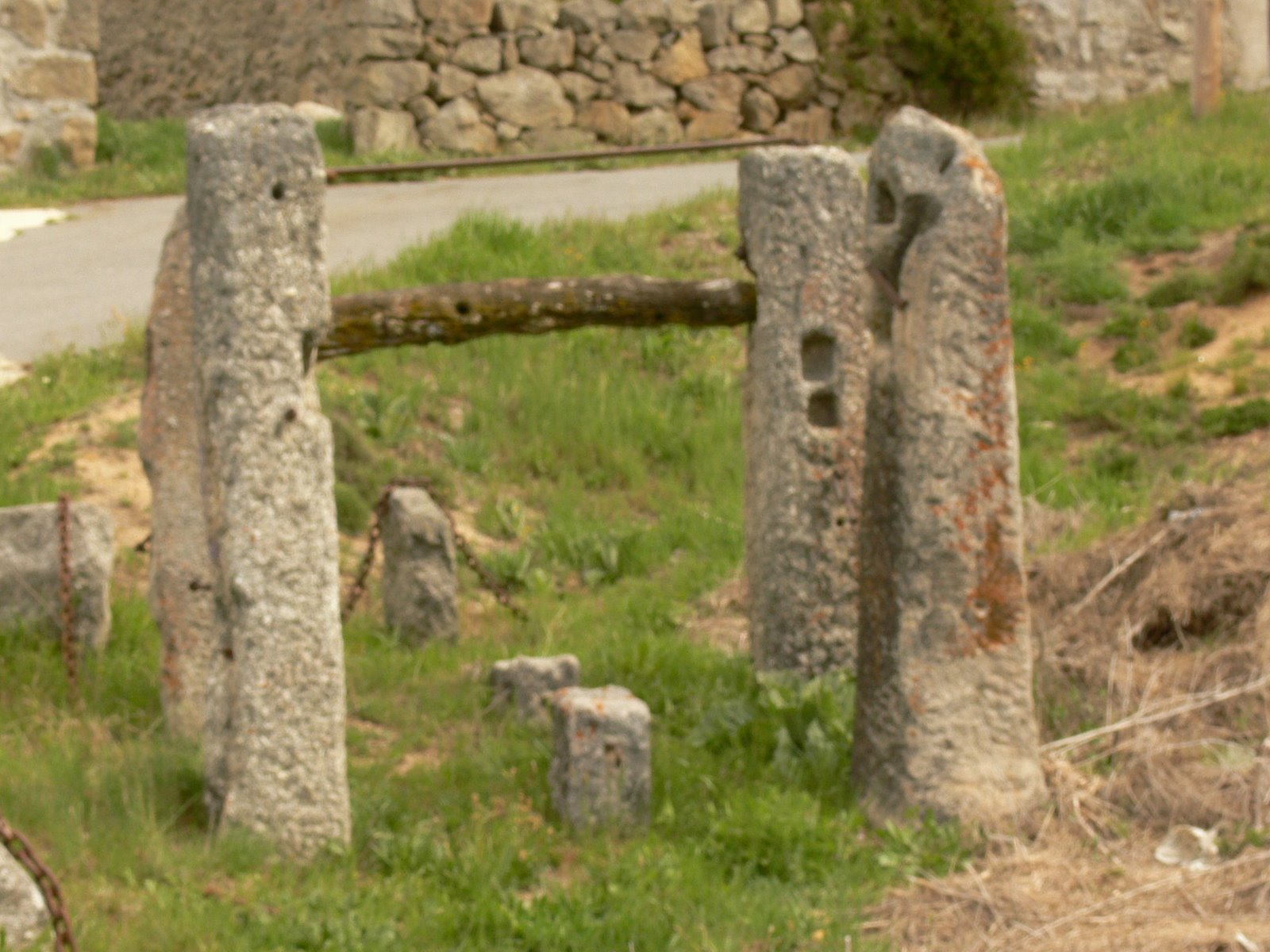 Potro_de_herrar